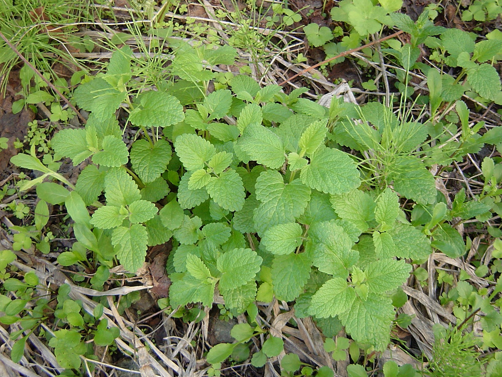 Melissa officinalis Lemon_balm（Aomori.Japan）